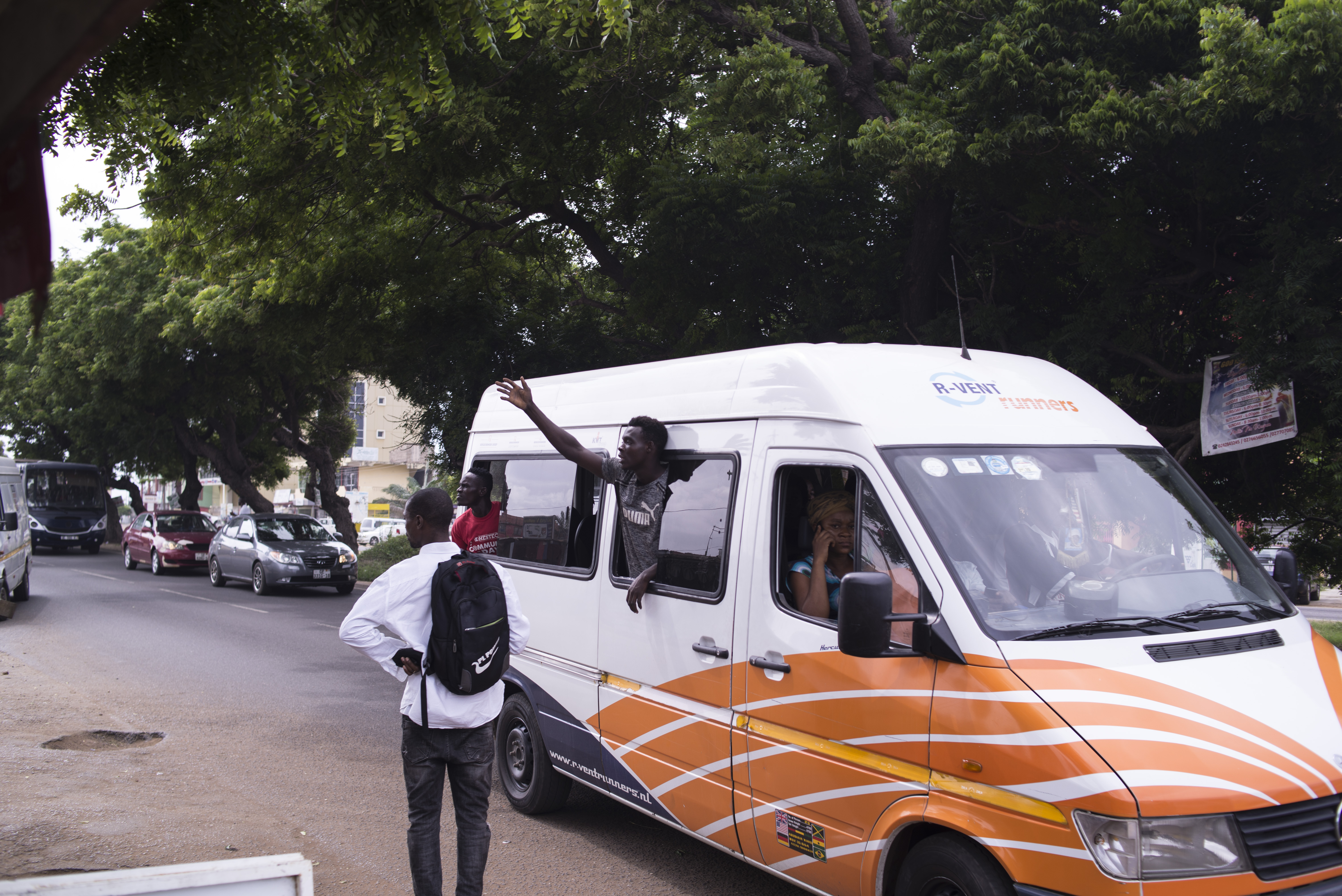 A mate of a Trotro transport calling for people at a bus stop in La-Accra. The way they call for people to join the bus is call "Shadowing". So when you hear a driver telling a mate to shadow, it means he should call people to come join the bus based on where they are heading.